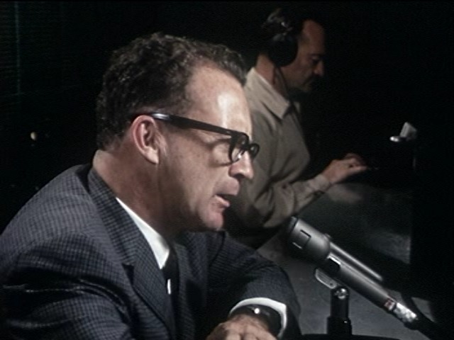 Frame from the promotional film "WJR: One of a Kind". WJR sportscaster Ernie Harwell